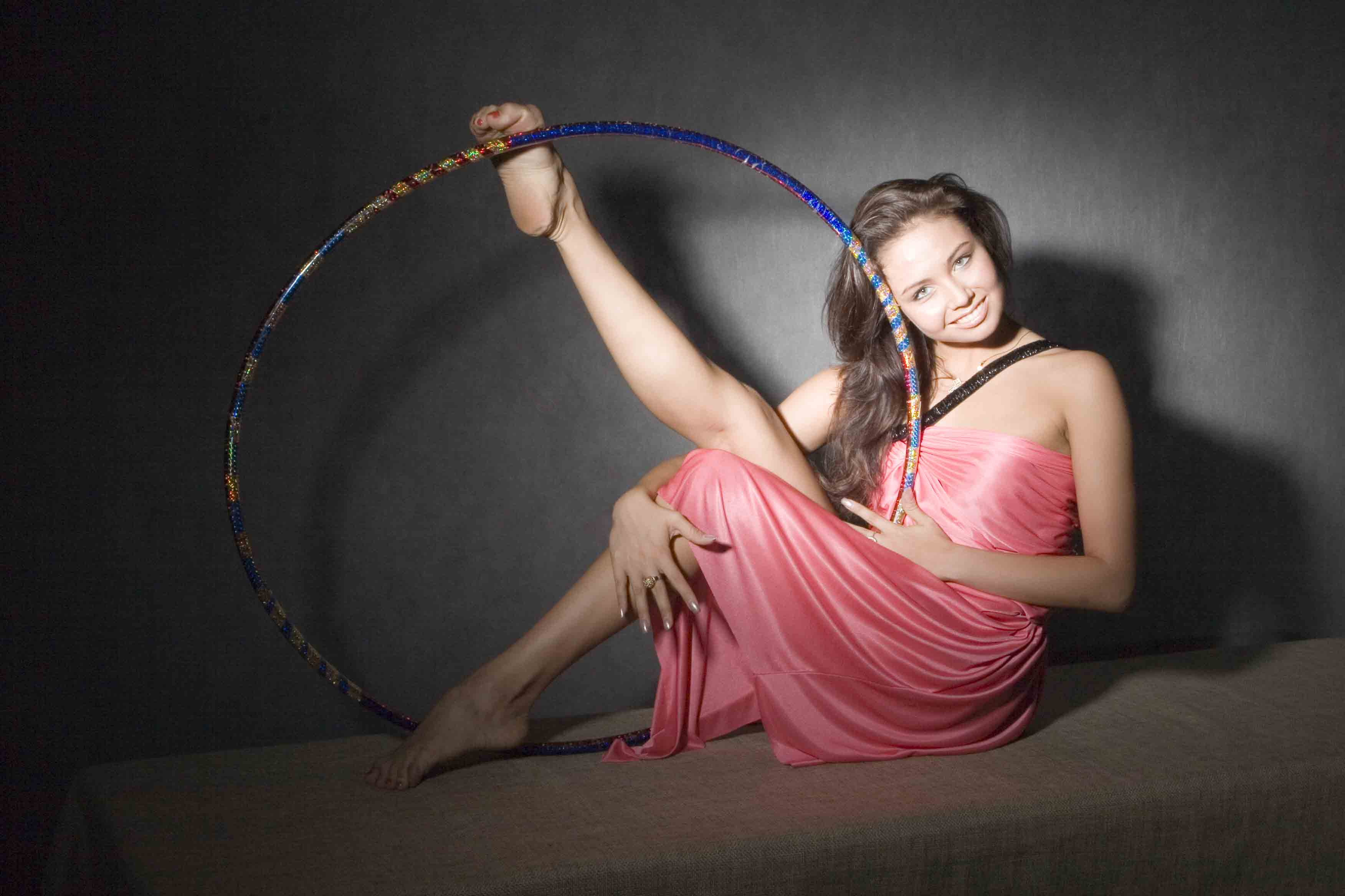 Utiasheva Laysan, russian rhythmic gymnast